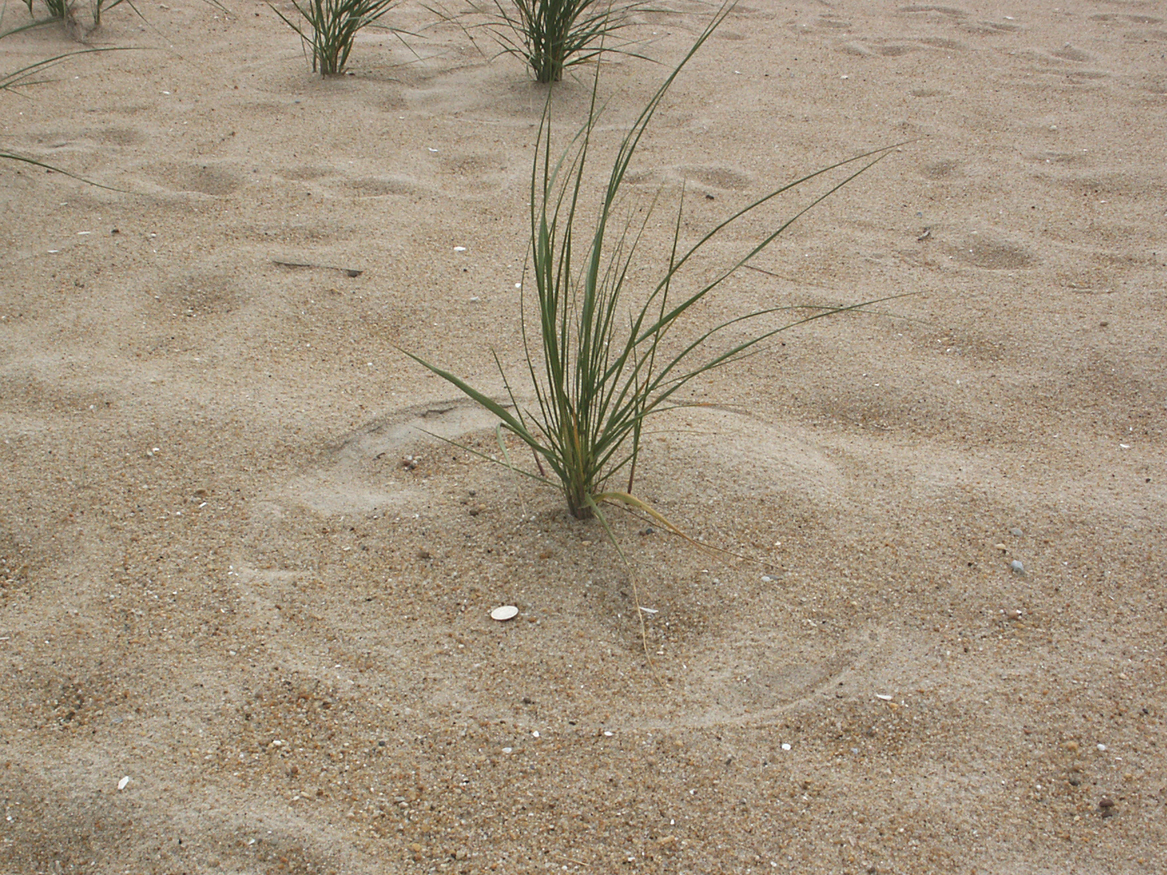 Scratch circles formed as wind moved blades of grass. Photograph taken near Bethany Beach, Delaware.